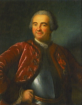 Portrait of Gaspard-Joseph Chaussegros de Léry (1721–1797), military engineer in New France and political figure in the Province of Quebec and Lower Canada.